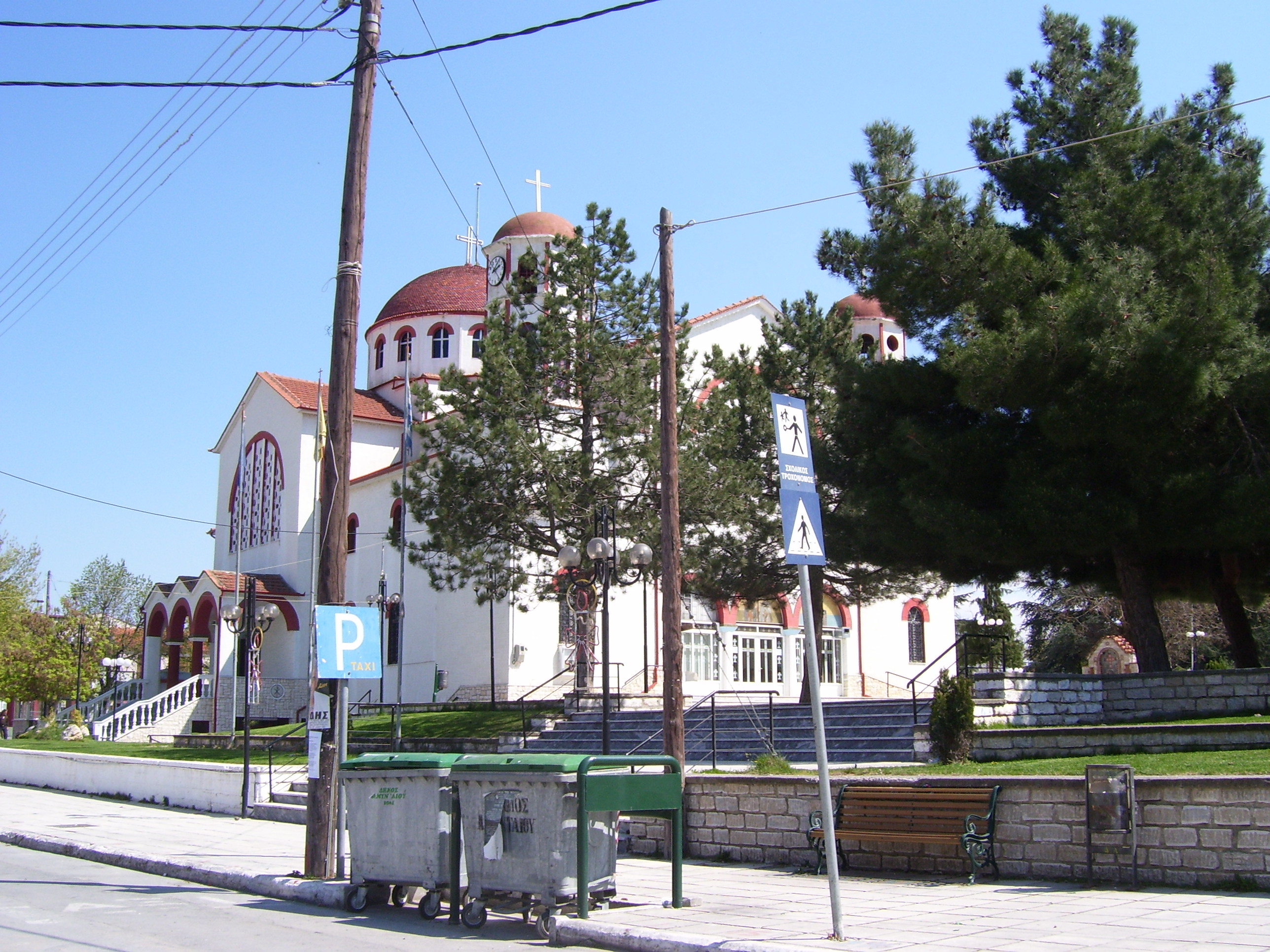 Church in the town of Amyndeo, Florina Prefecture, Greece